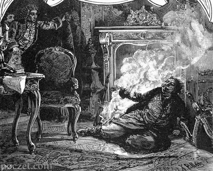 Accident of King Stanisław I